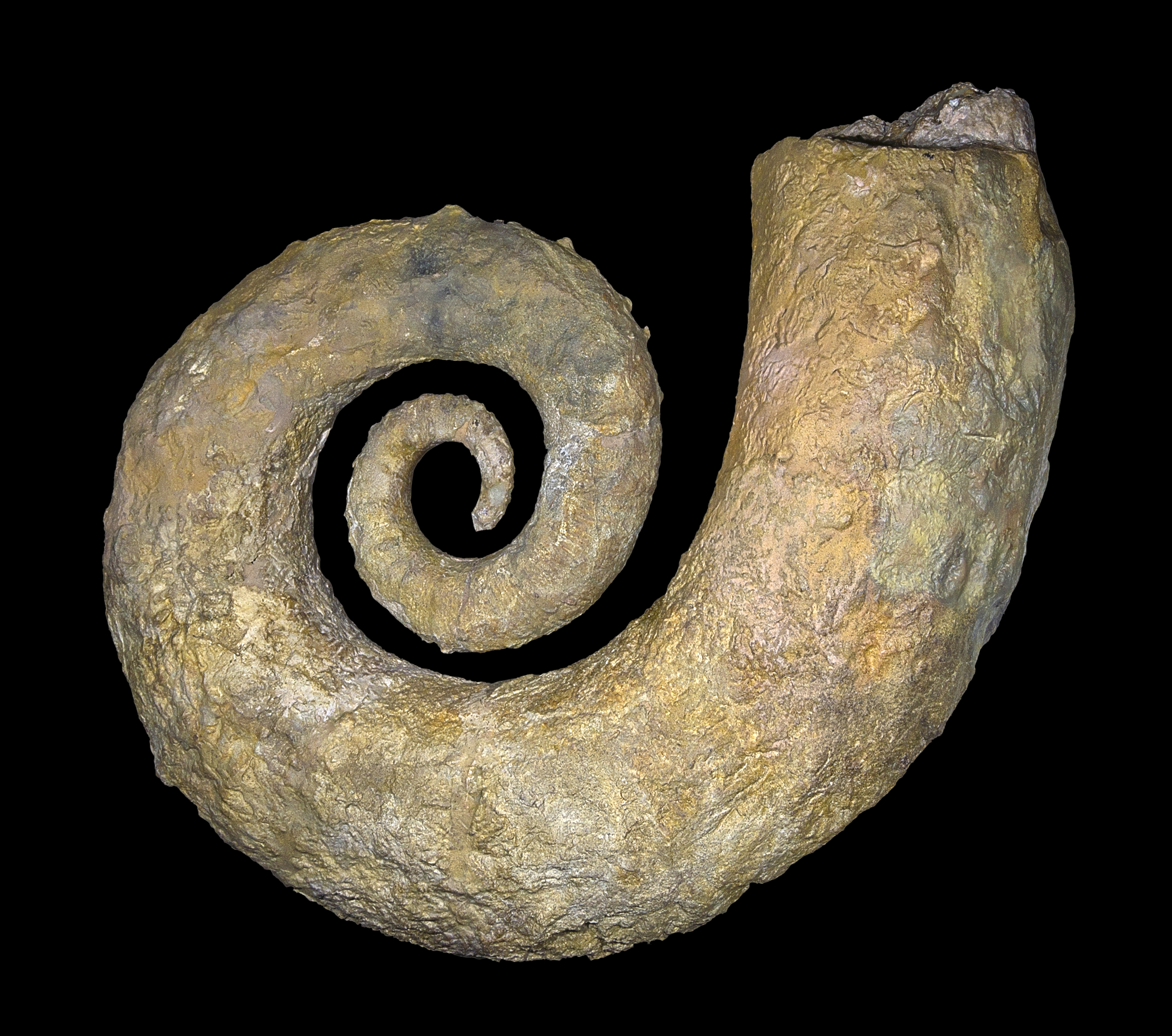 Ammonite Crioceratites emerici (Léveillé, 1835) Stage : Barremien from 130 to 125 Ma (million years ago) Locality : Gard, France Size : 30x29.7x8.9 cm